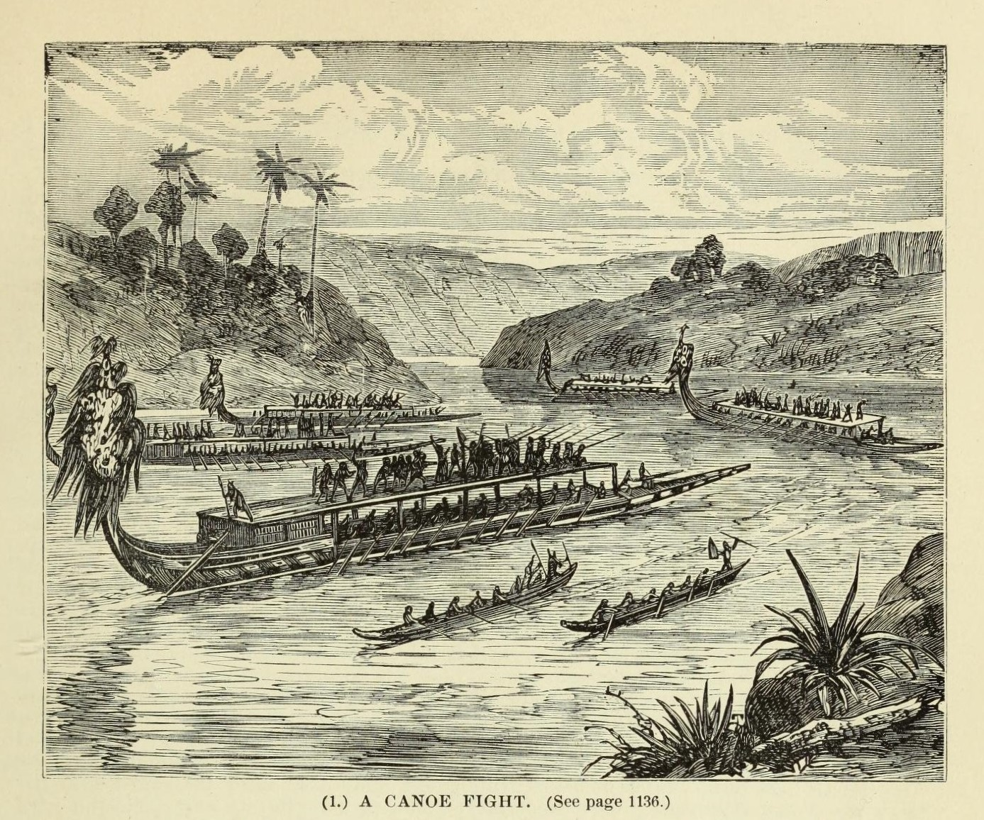 An image depicting a canoe fight of the sea dayak.